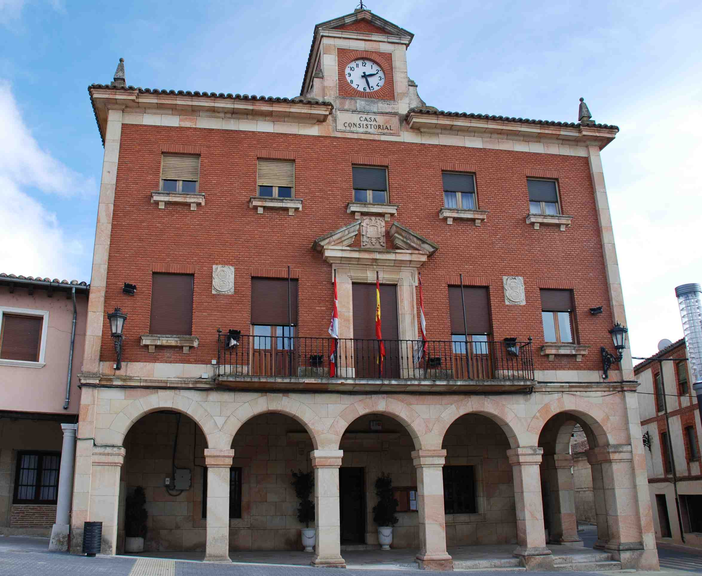 Town hall of Herrera de Pisuerga (Palencia, Castile and León).